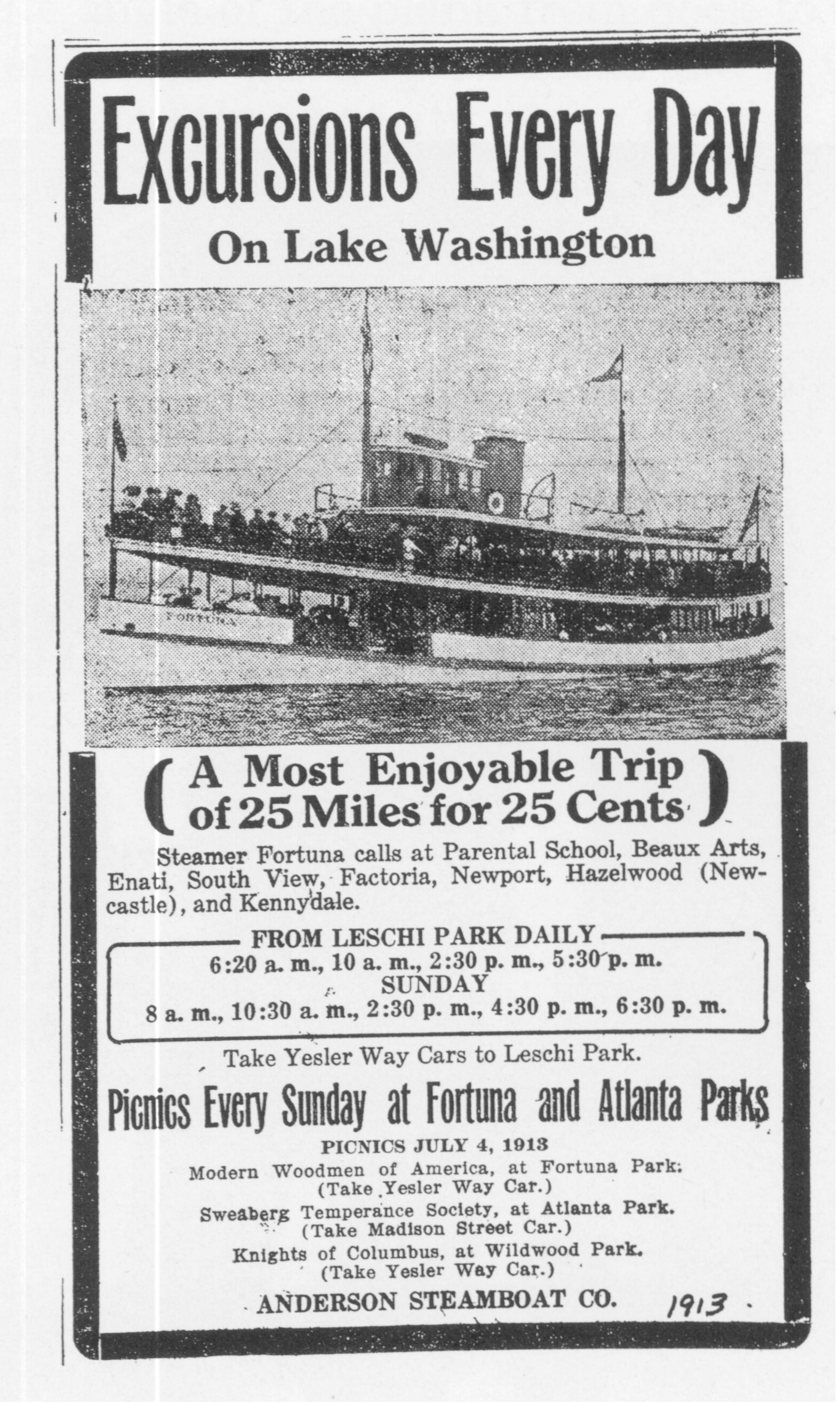 Newspaper advertisement for Lake Washington steamer Fortuna, published about 1912